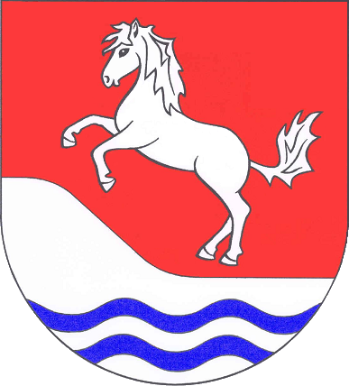 Coat of arms of the municipality Kleve in Schleswig-Holstein, Germany.